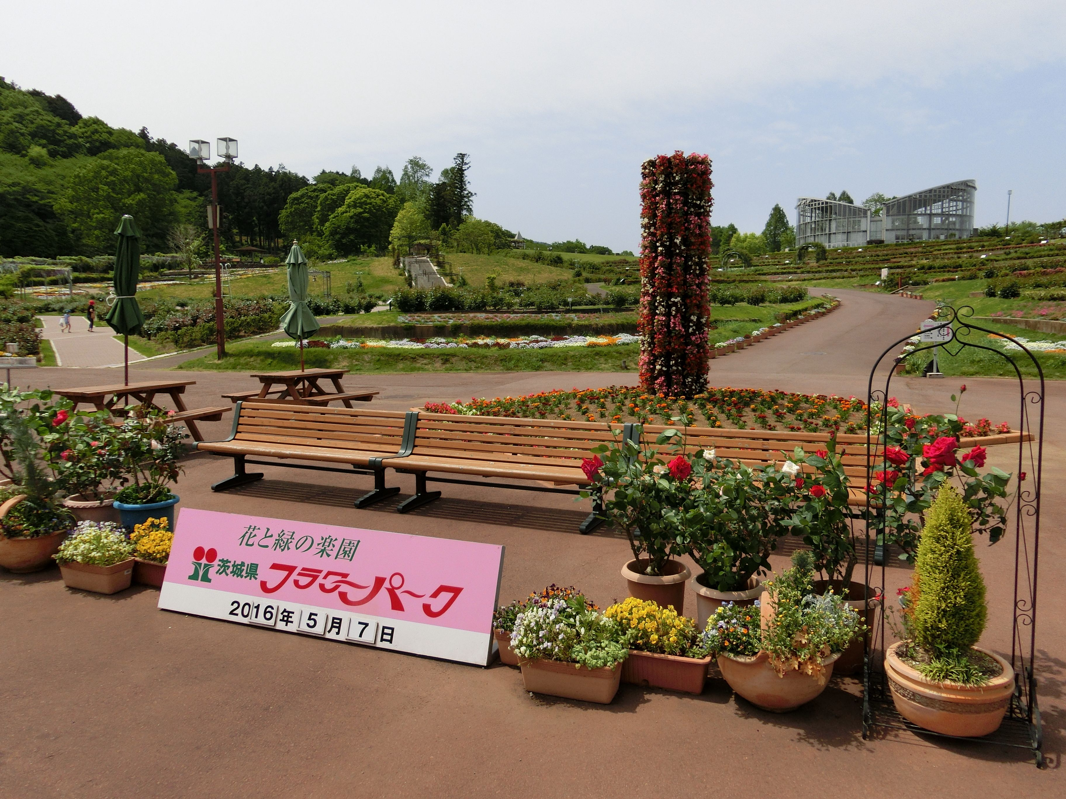 Ibaraki Flower Park May 7, 2016